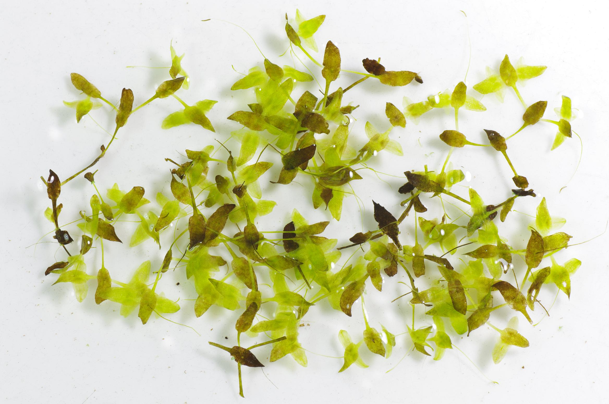 The submersed aquatic plant Ivy Duckweed (Lemna trisulca).